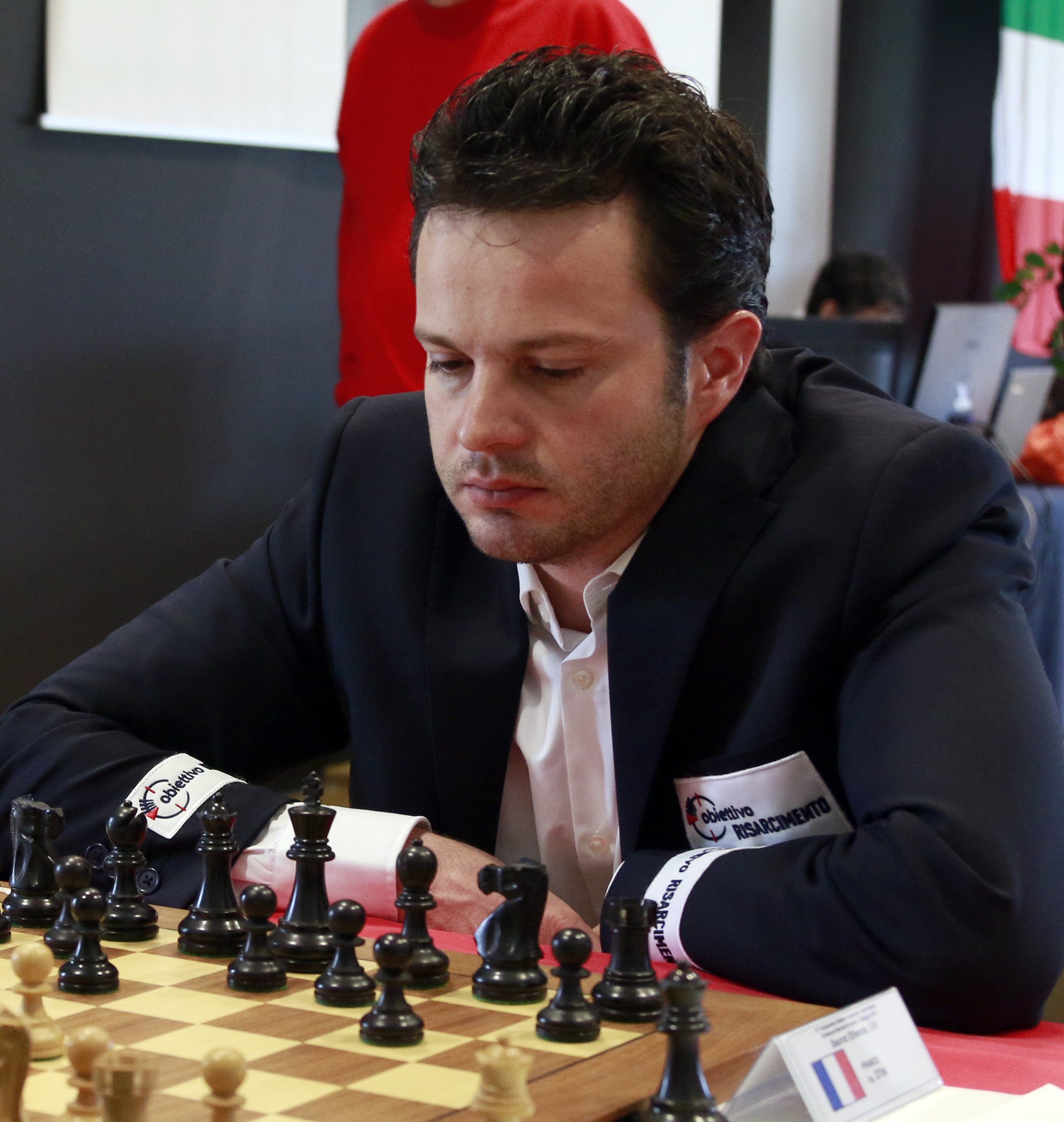 Étienne Bacrot. French chess Grandmaster. Italian Team Championship, Civitanova Marche (Italy), April 29th/May 3rd, 2015.